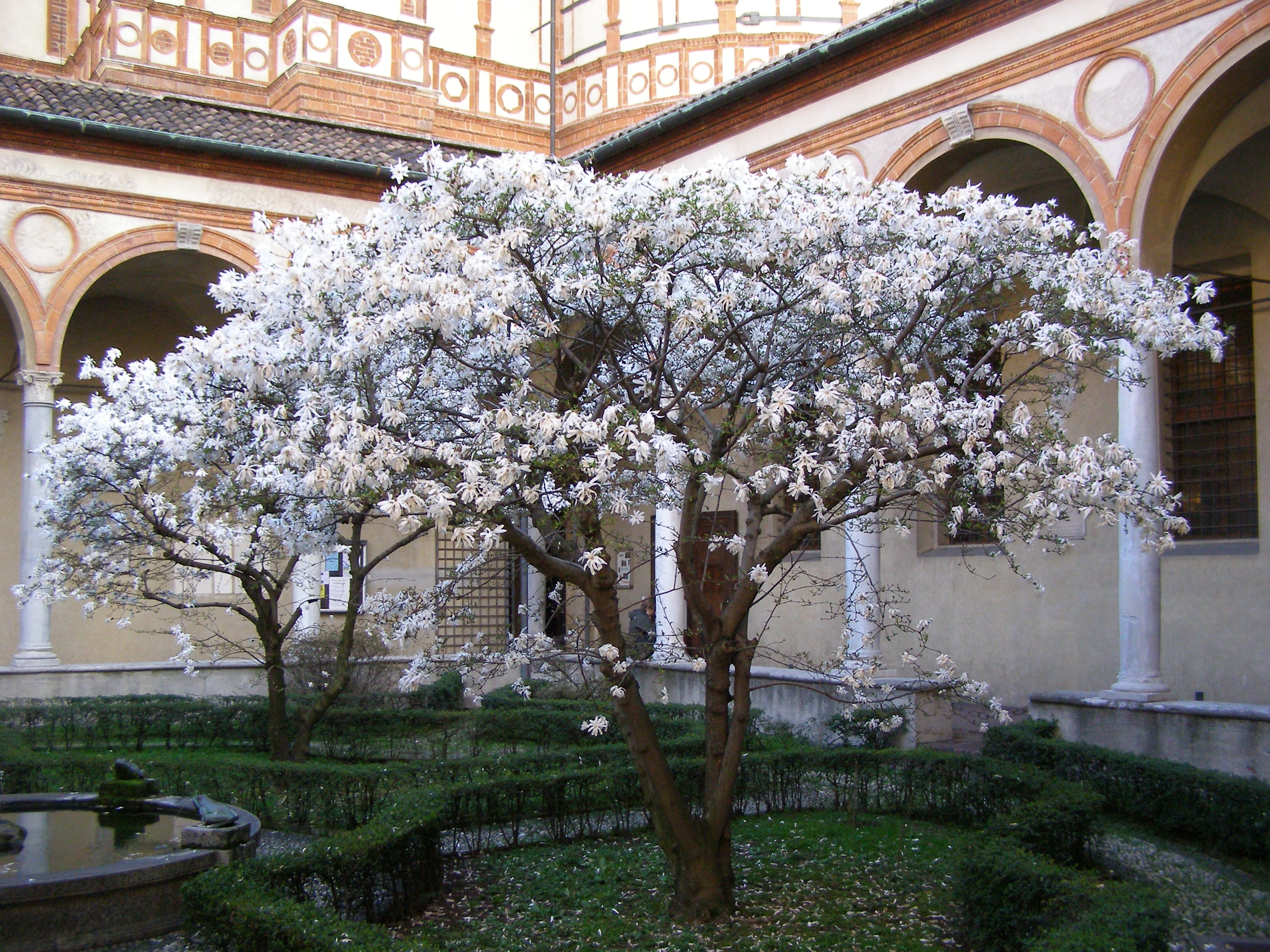 Milano - Santa Maria delle Grazie church